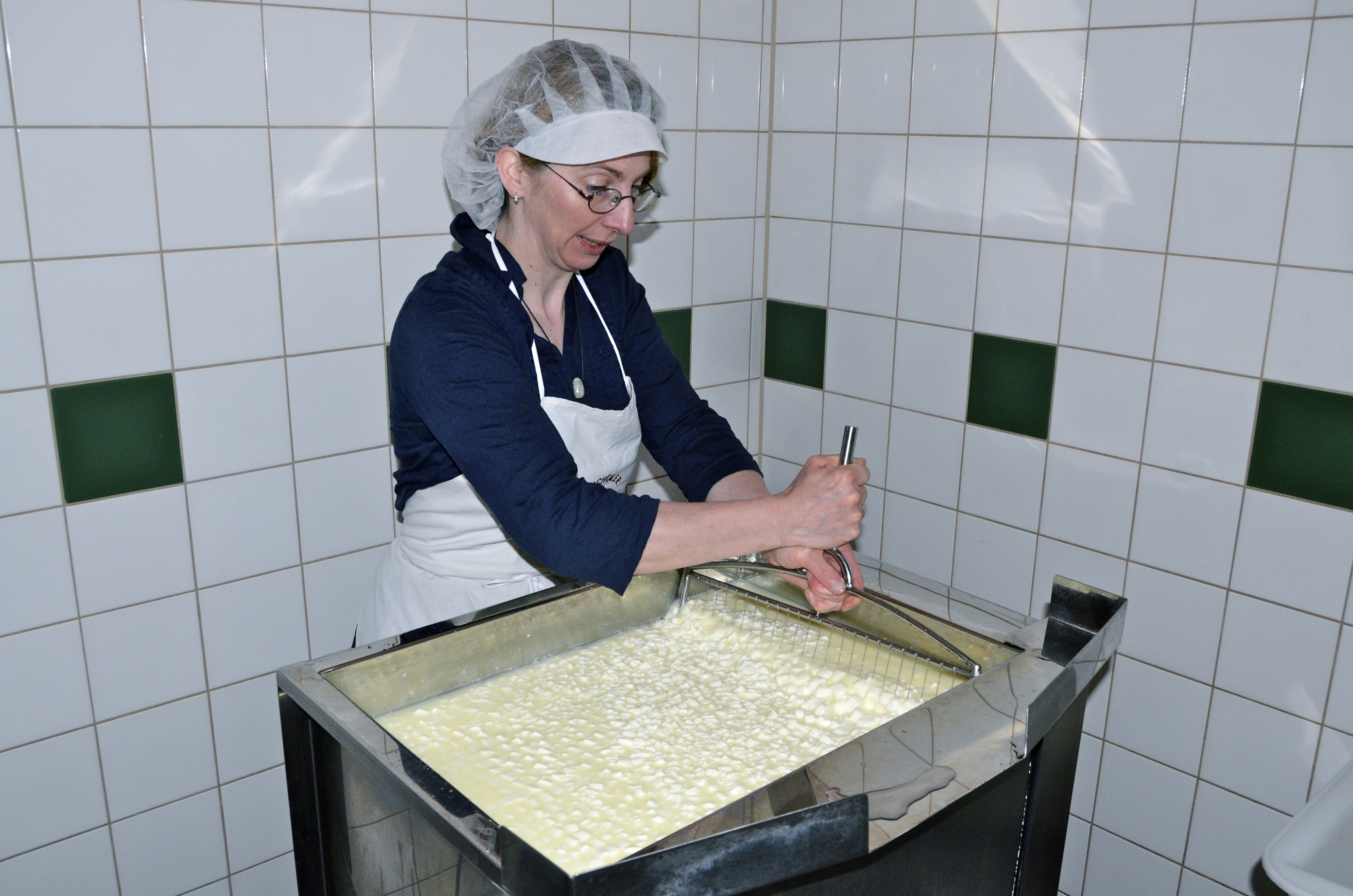 Cutting of the curds from sheep milk on Joehrerhof at Tscheltsch #4, Liesing, municipality Lesachtal, district Hermagor, Carinthia / Austria / EU